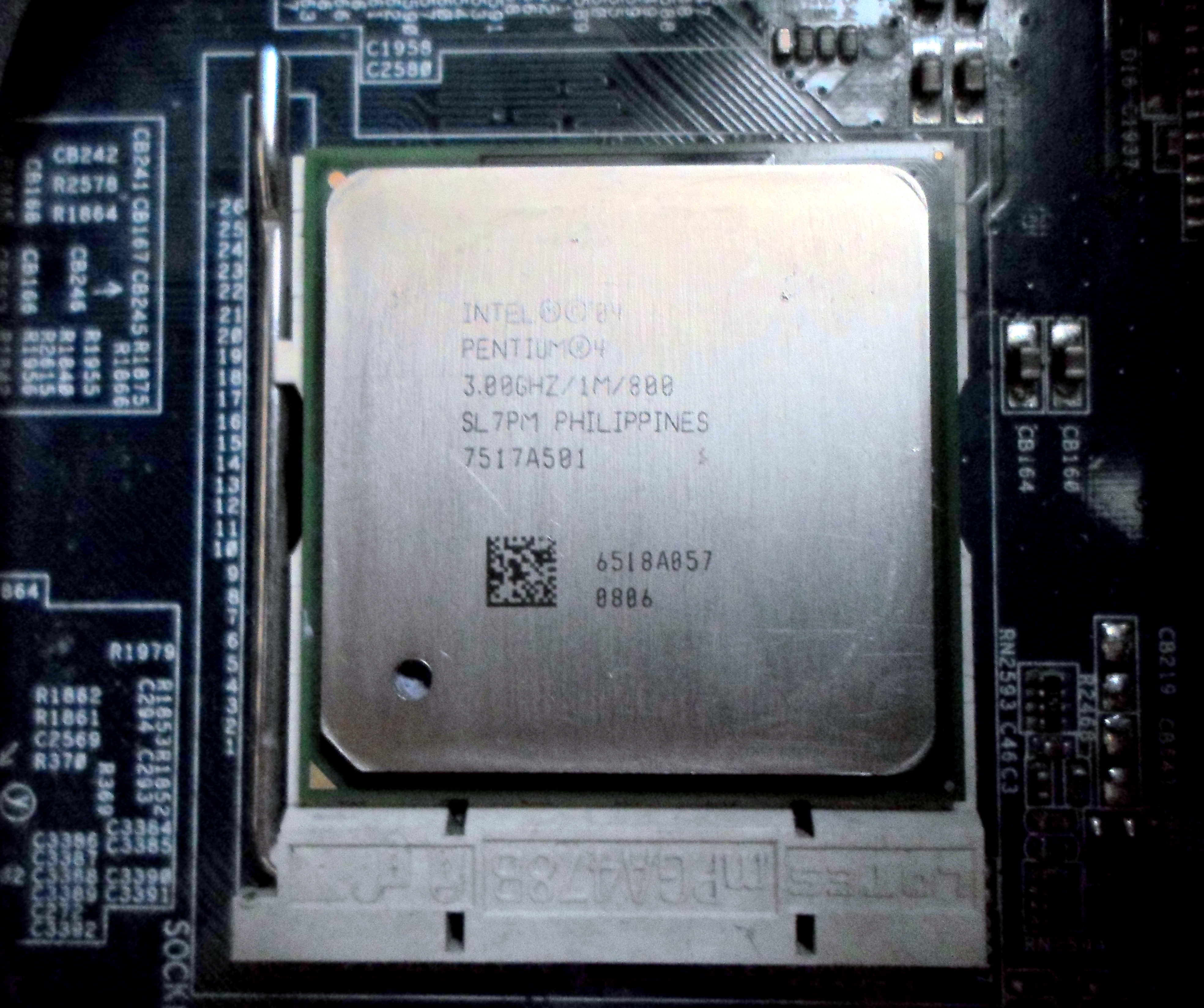 Is my Pentium 4 HT processor on my PC speed clock: 3000 MHz, 3.00 GHz , Memory Cache: 2048, Socket: mPGA478B, core name: Prescott, installed on ASRock P4VM890 motherboard xD....